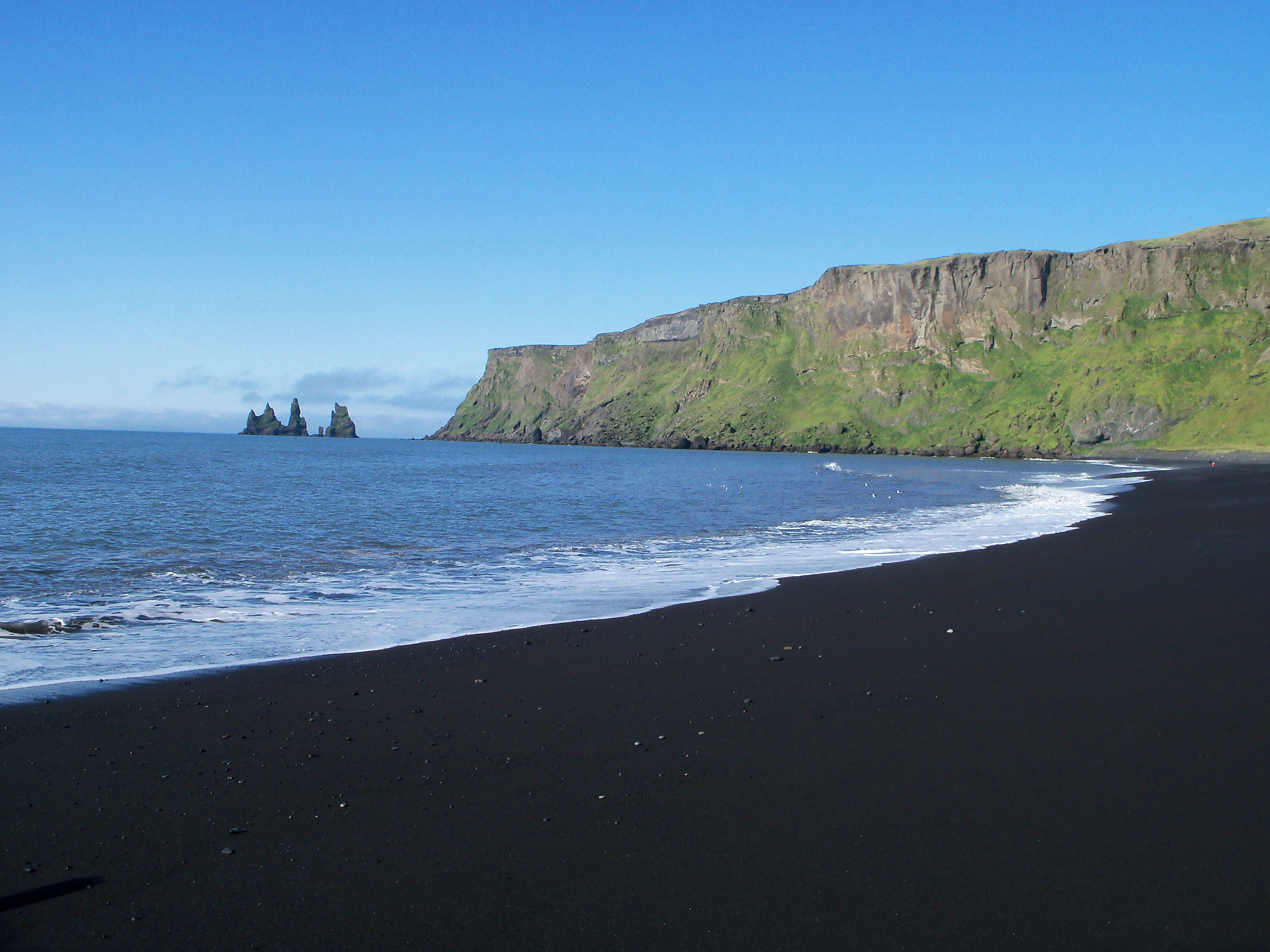 Vík í Mýrdal black sand beach in southern Iceland.